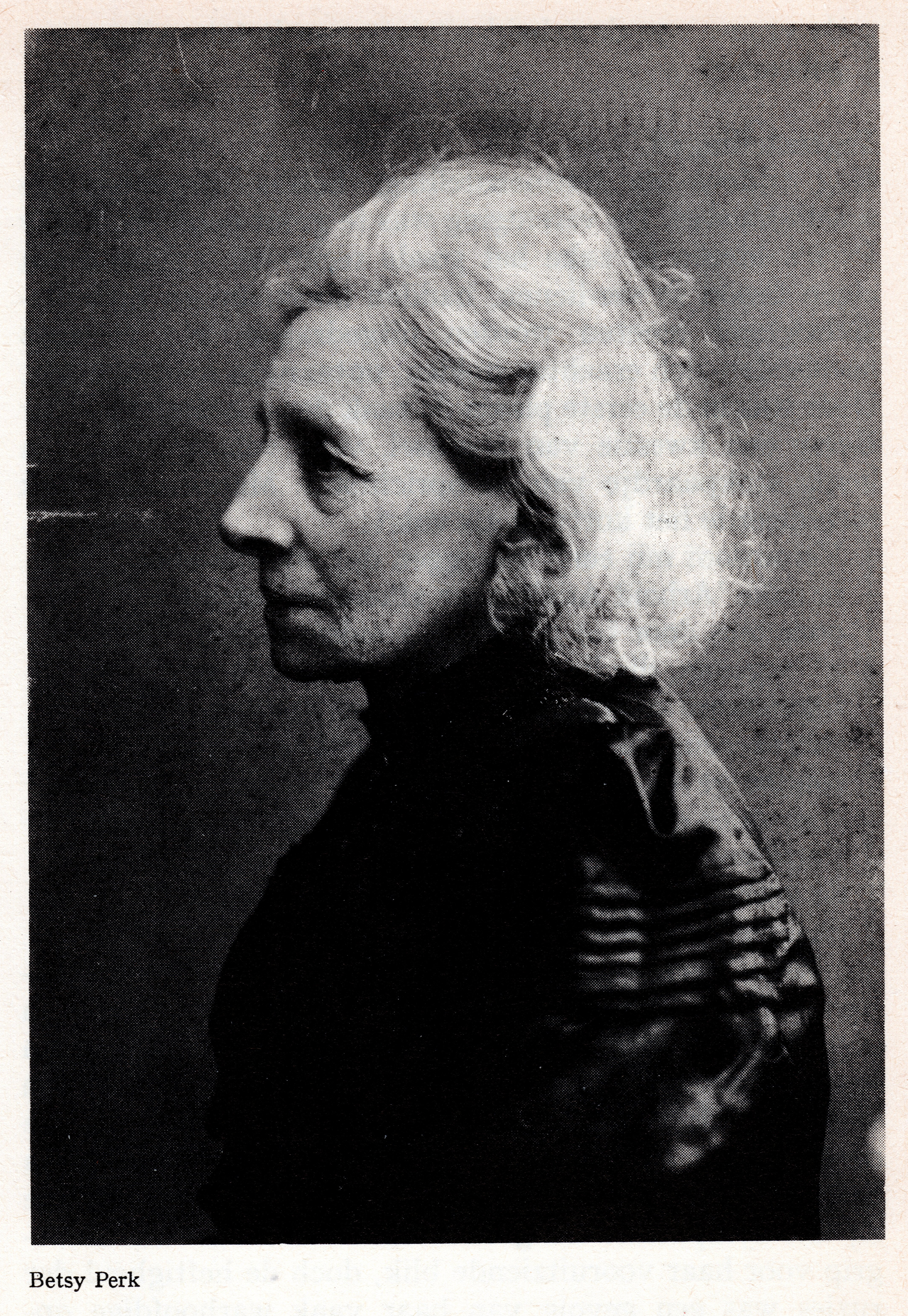 Betsy Perk Portrait